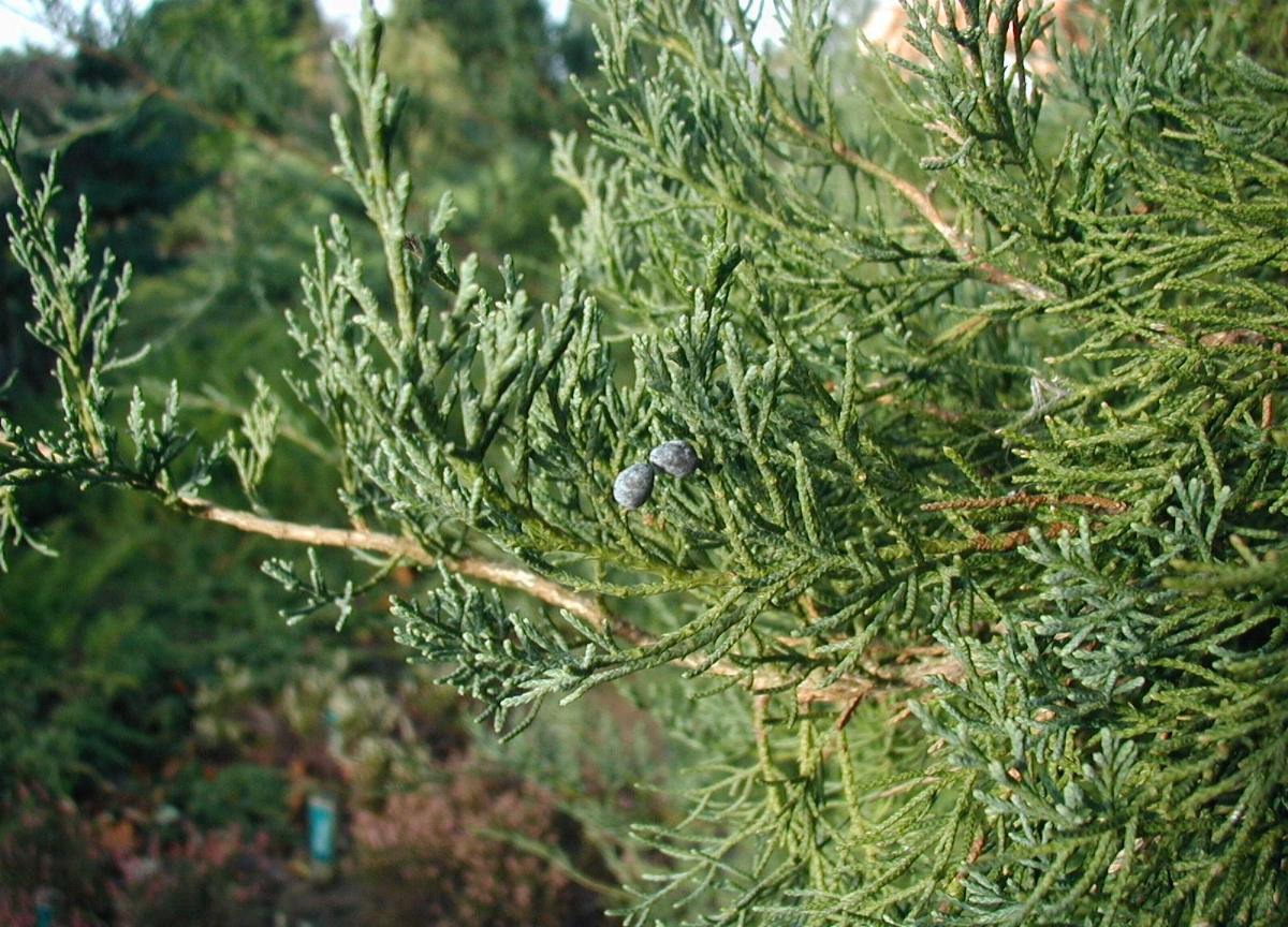 Juniperus virginiana: Close-up on berries and scales.